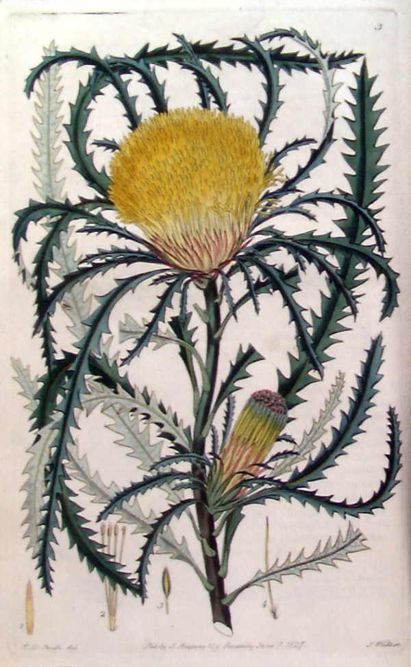 This is an engraving of Banksia prolata, formerly Dryandra longifolia. It is Plate 3 of Robert Sweet's 1828 book Flora Australasica.